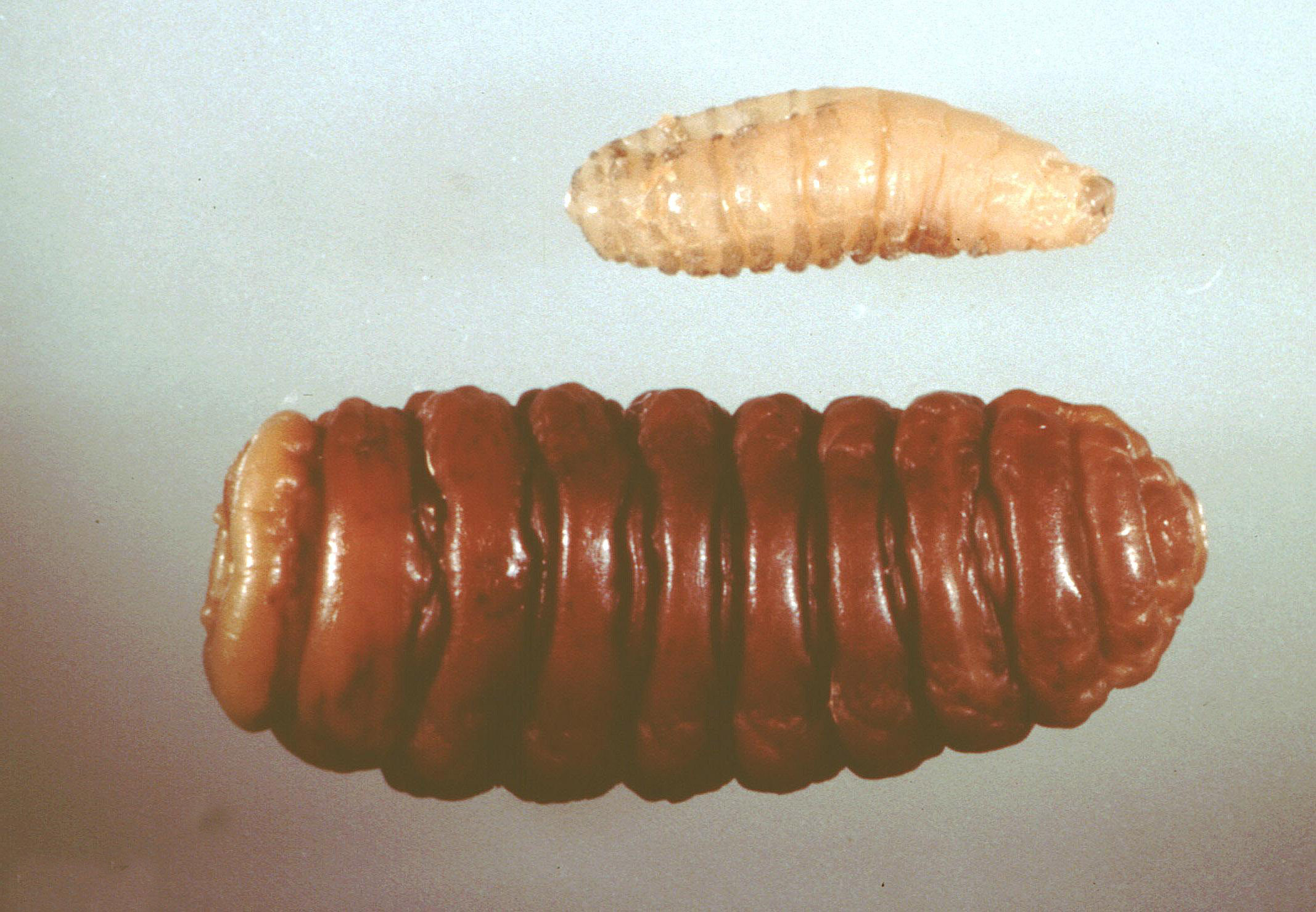 Larvae of the dipteran fly Oestrus ovis, sheep nasal bots, causing myiasis.